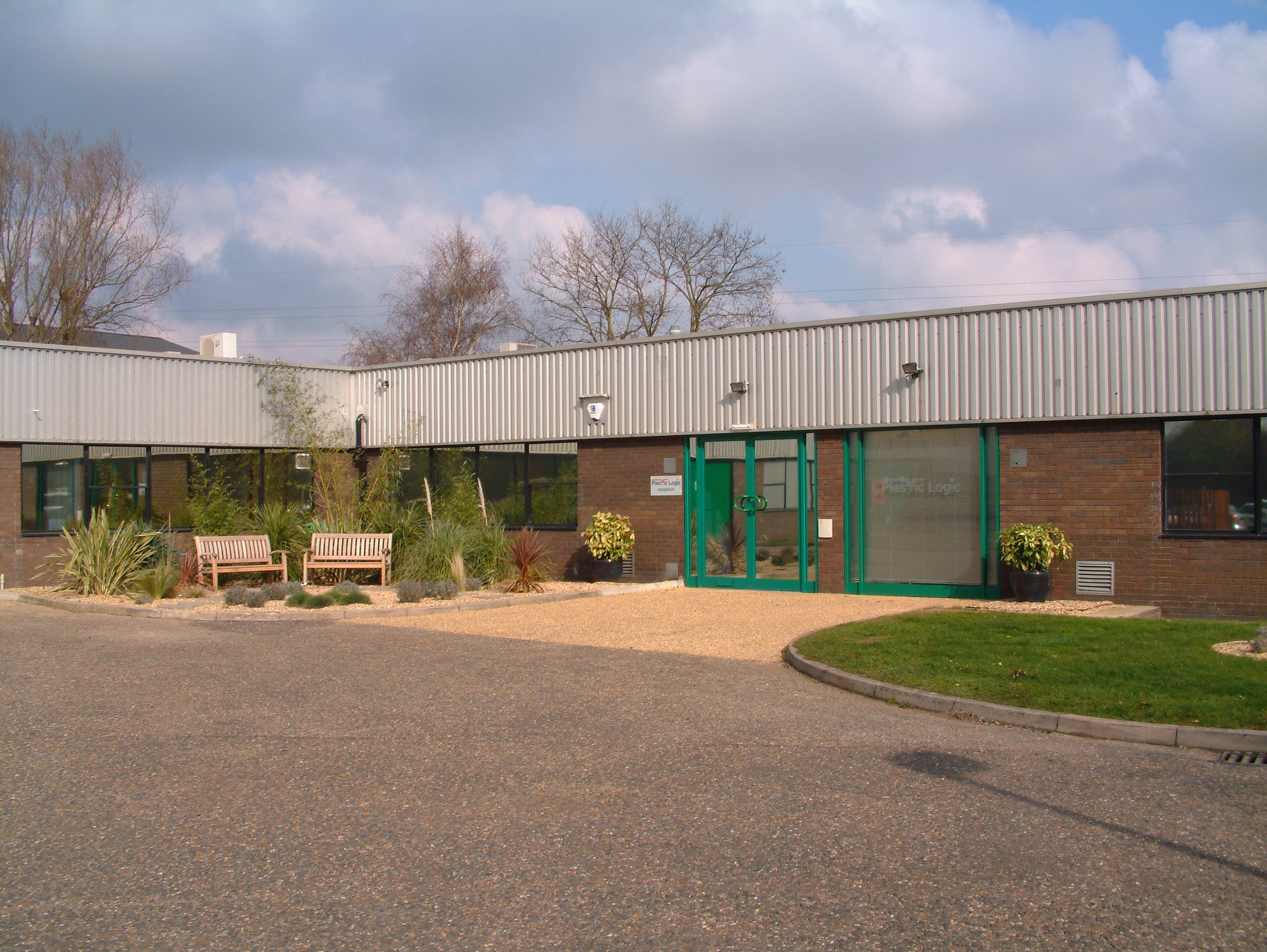 Plastic Logic's office on the Cambridge Science Park, UK.